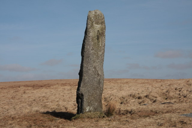 Beardown Man Second tallest of the Dartmoor menhirs and the highest in altitude.